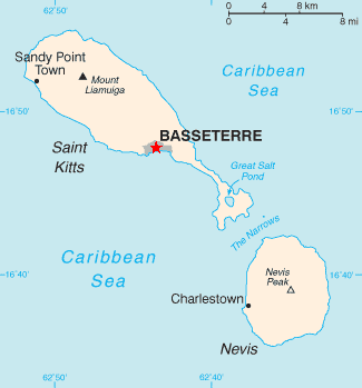 The Grey Area Around the Red Star Indicates the Location and City Limits of the City of Basseterre on the Island of St. Kitts.